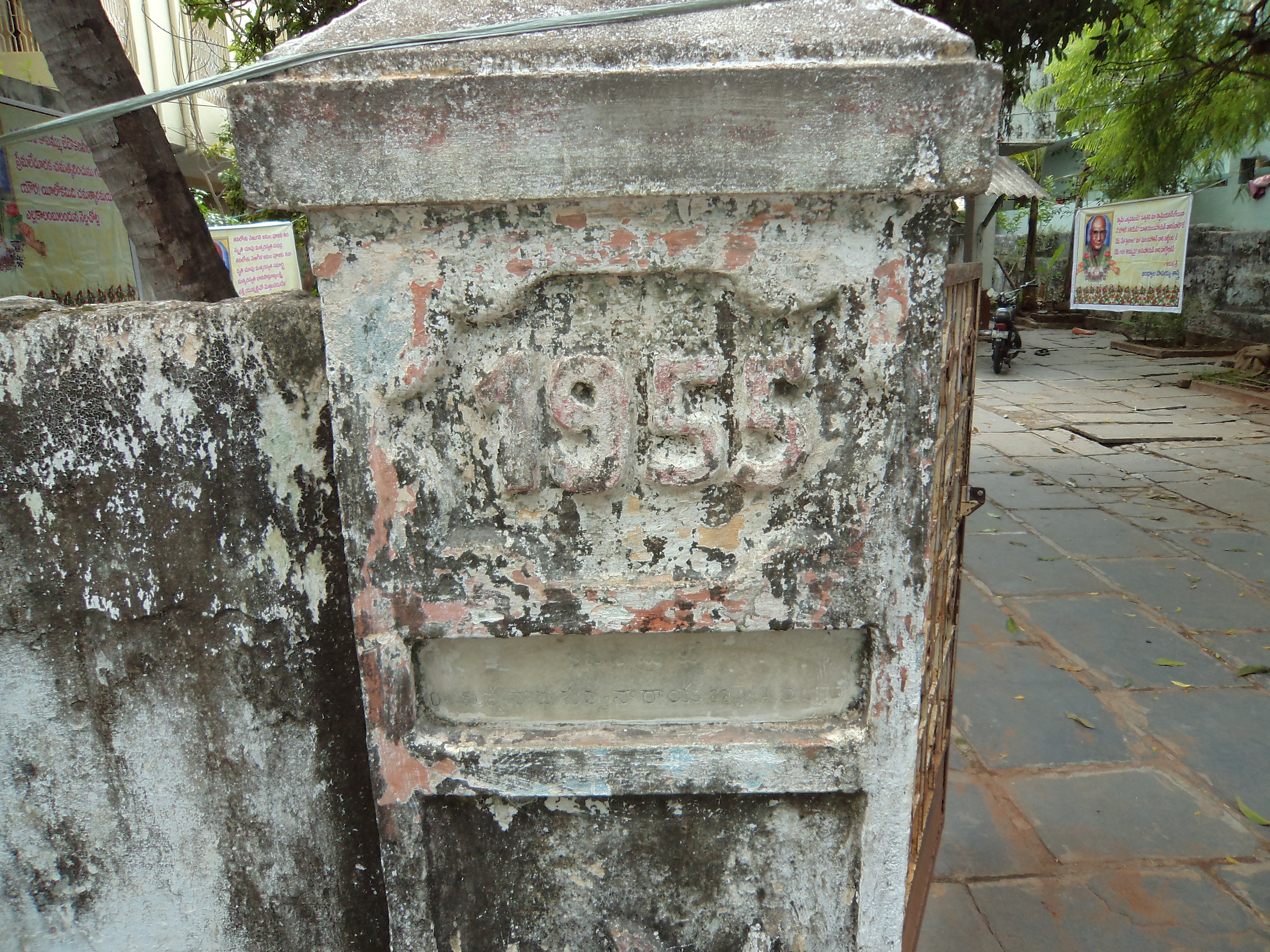 Viswanatha atyanarayana, a poet from Andhra Pradesh, Jnan pith award(the highest literature award in India) winner, his memories, his home and his posessions.